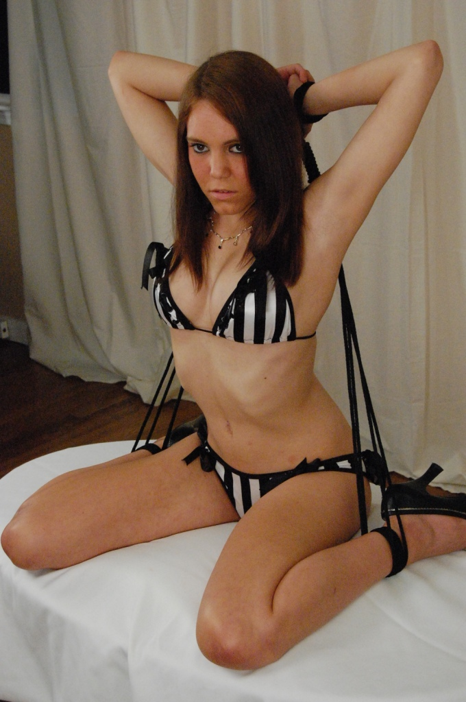 Girl in BDSM Model consent: The photographer has clearly asserted that the model consented to broad publication. See this discussion for details.